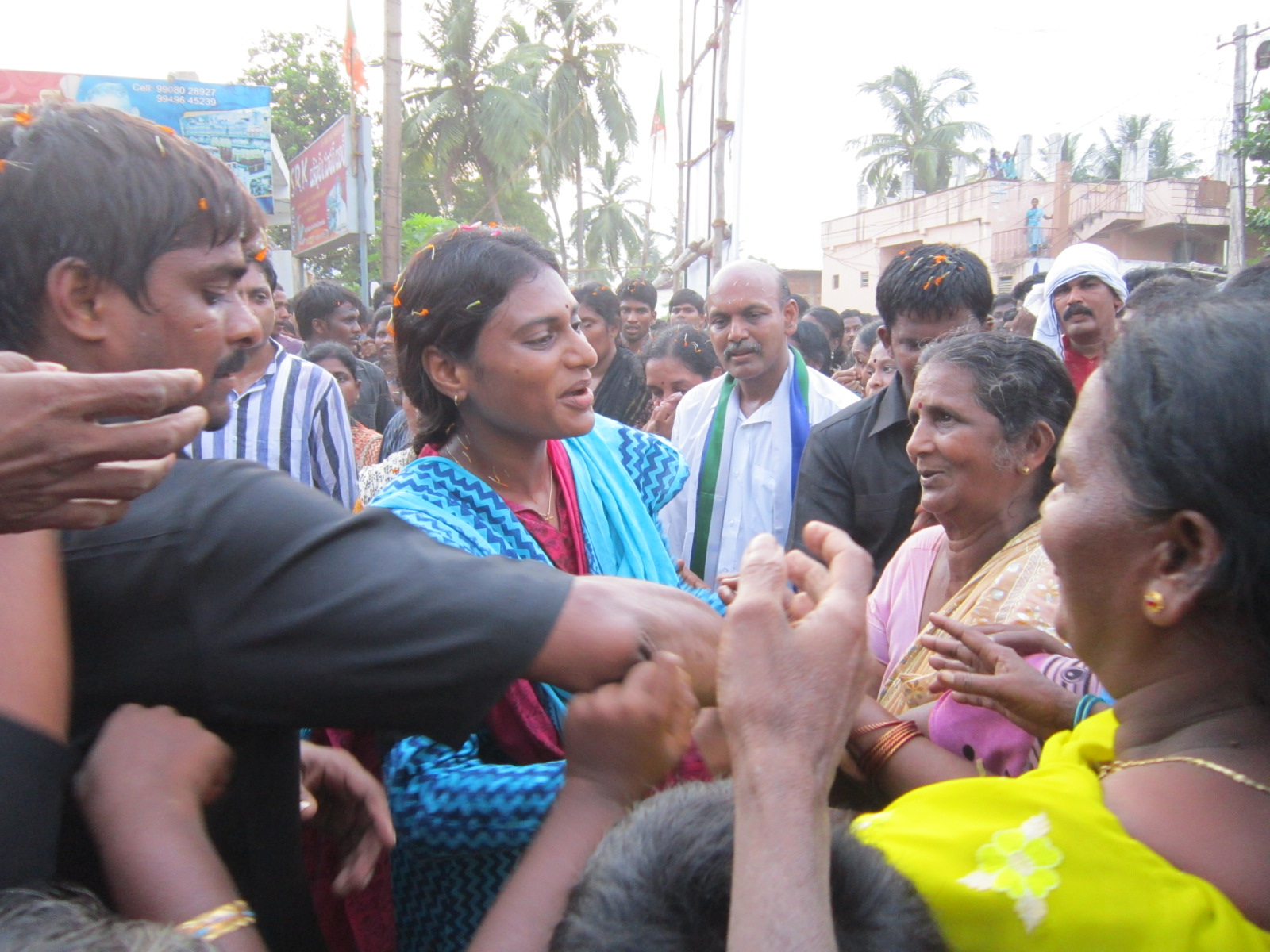 sharmilareddy ,leaderof YSRCP in Padayatra